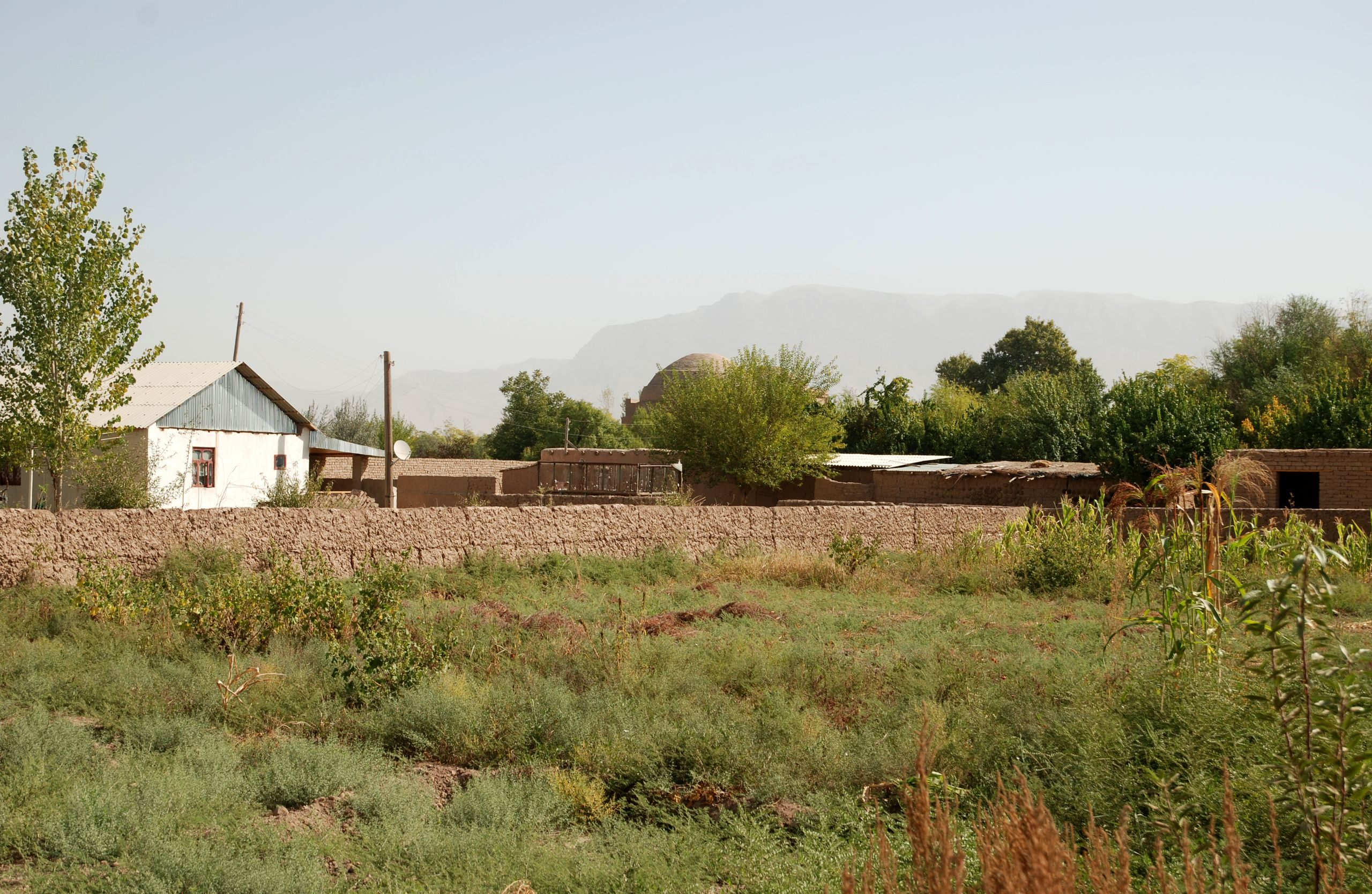 Sayyod village, Khoja Mahshad behind, near Shahrituz